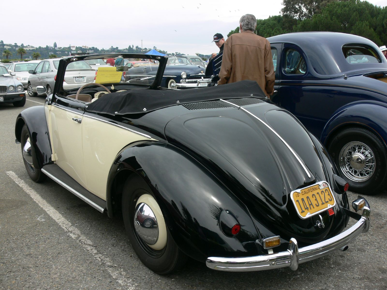 1950 Hebmüller at the 2006 Sausalito Classic Car Show.